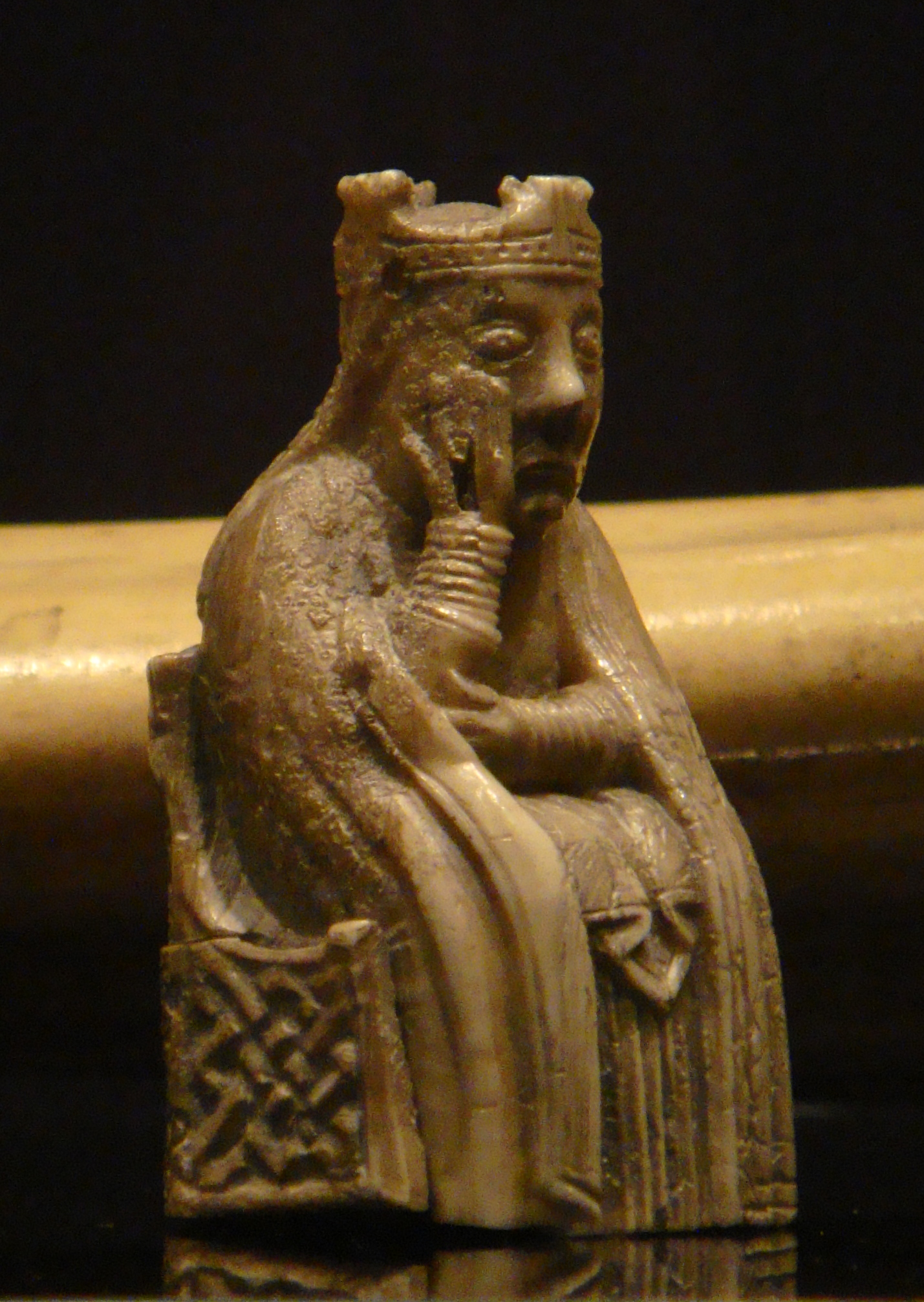 Exhibition in the National Museum of Scotland. Pieces from the British Museum, National Museum of Scotland and other collections. A queen with number of permanent collection NMS ??